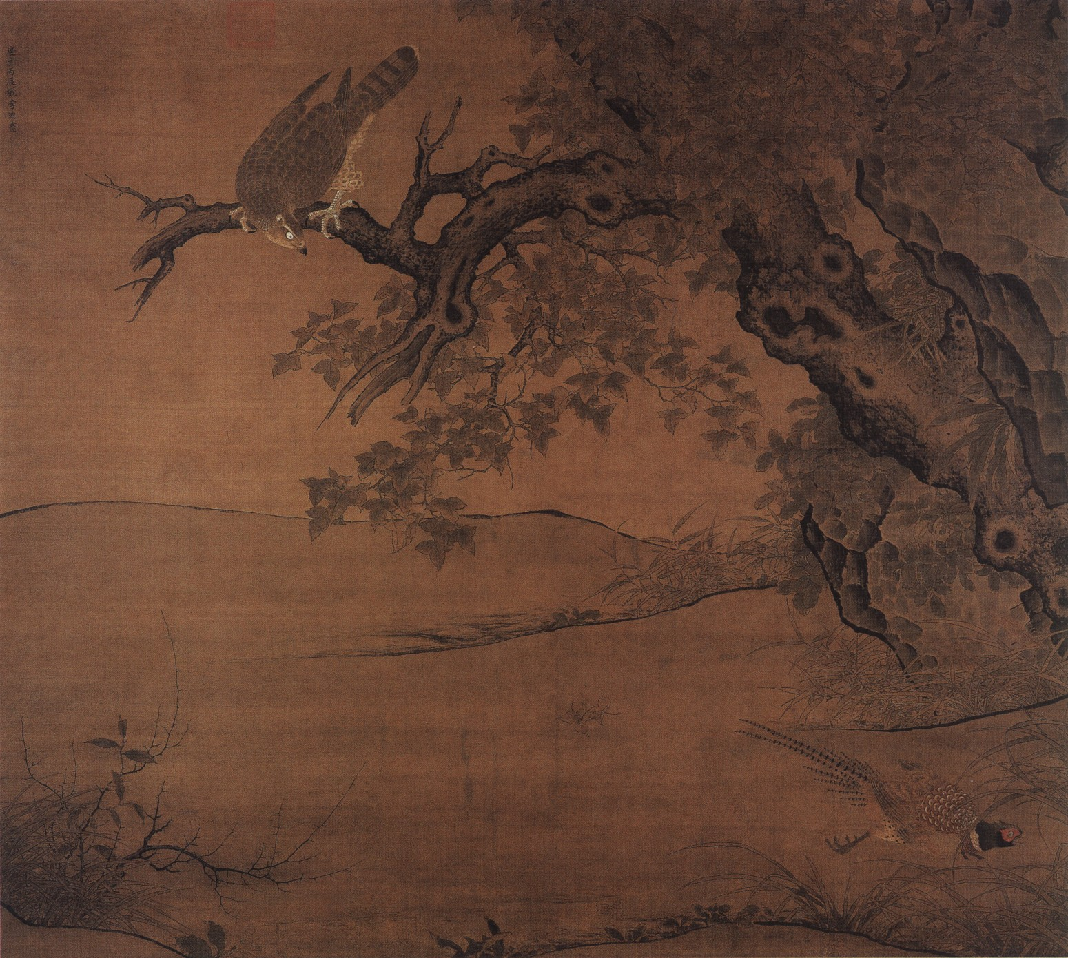 Maple Falcon and Pheasant (獵犬圖), ink and color on silk. 195.4 cm. high x 210 cm. wide. Located in the Palace Museum, Beijing (北京 故宫博物院).